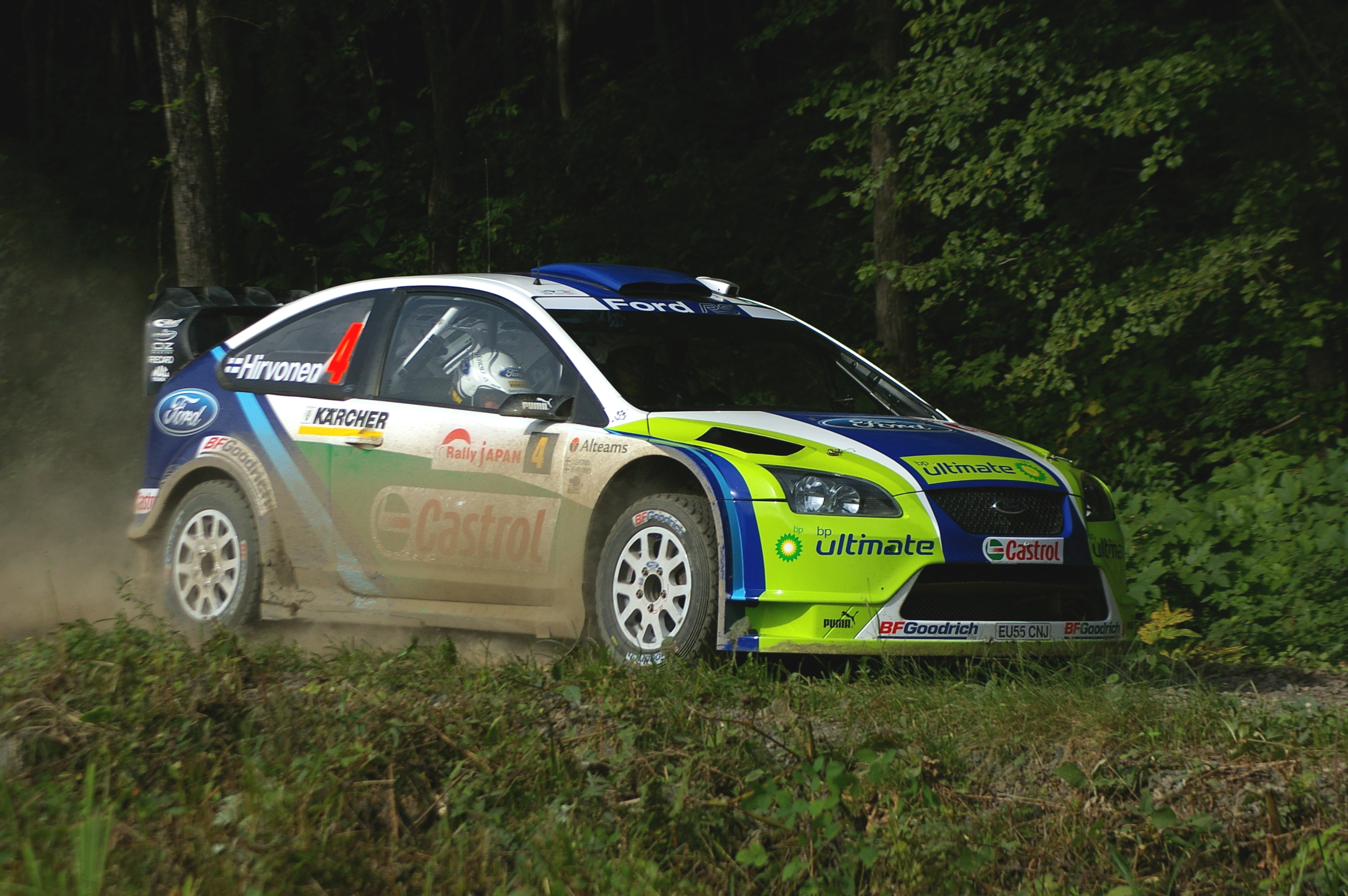 Ford Foucus WRC'05 in RallyJapan2006.